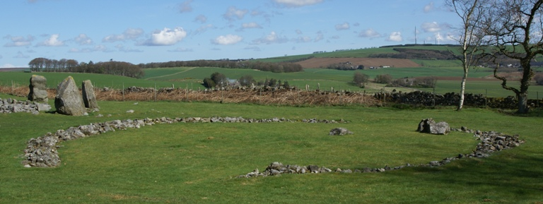 Loanhead Stone Circle, Aberdeenshire, Scotland